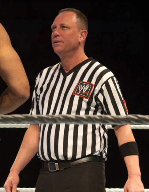 Mike Chioda refereeing at a WWE SmackDown live event in Montgomery, Alabama on January 7, 2012.